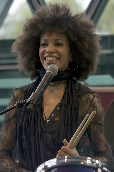 Cindy Blackman Federation Square, Melbourne, May 2008 See the full gallery - [1]